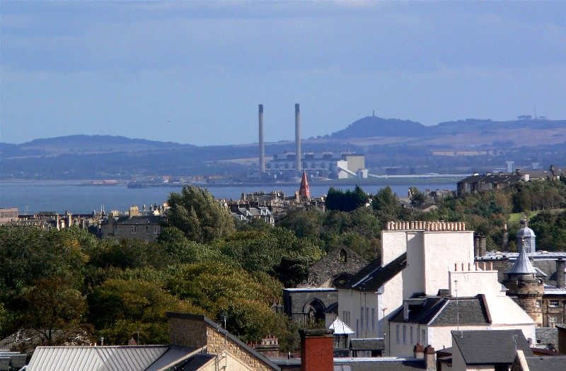 Cockenzie Power Station, as seen from North Bridge in central Edinburgh (14km away) looking out over Edinburgh and the Firth of Forth.